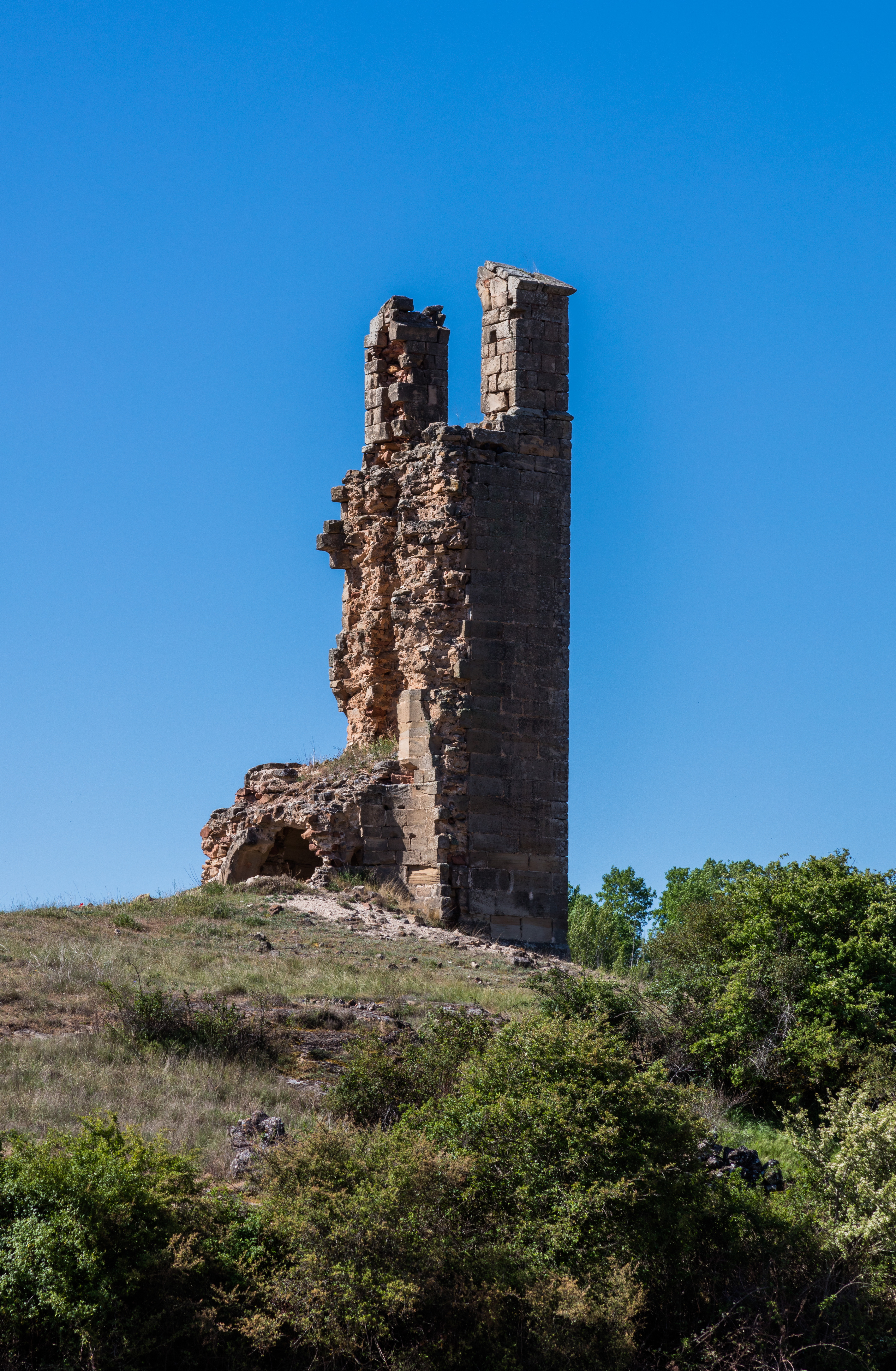 Remains of a romanic temple, Alcolea de las Peñas, Guadalajara, Spain